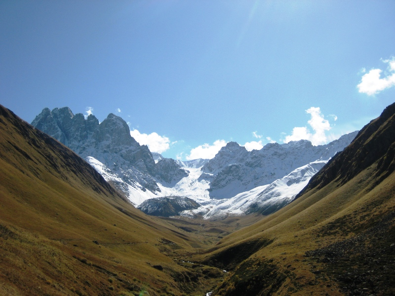 Chaukhi area, Khevi, Georgia